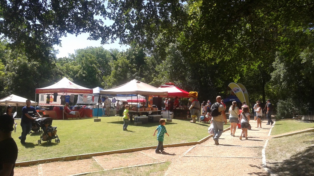 Heard Museum, Texas Heritage Festival